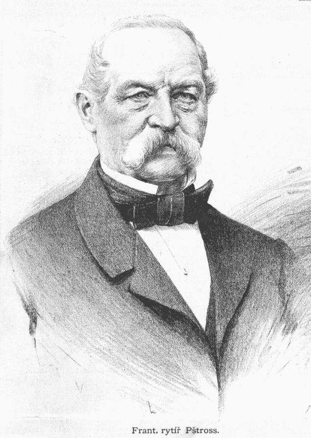 Portrait of František Pštross (1797 - 1887), entrepreneur and municipal politician in Prague, father of mayor František Václav Pštross.